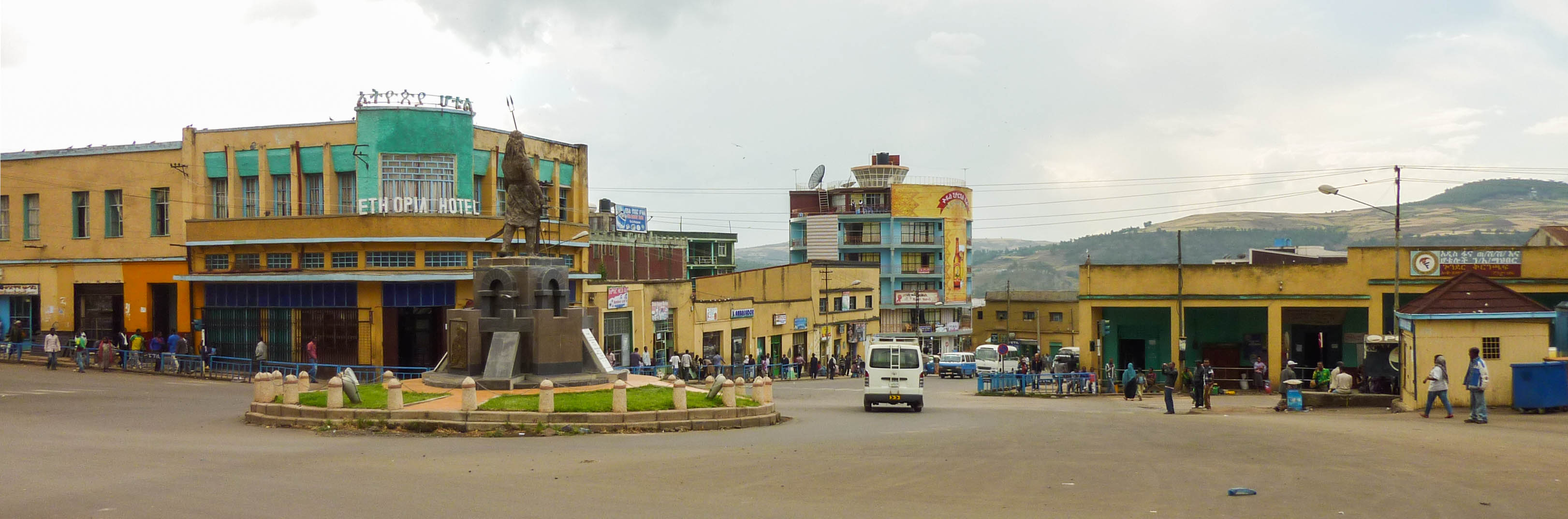 Downtown Gondar and the Ethiopia Hotel, Ethiopia